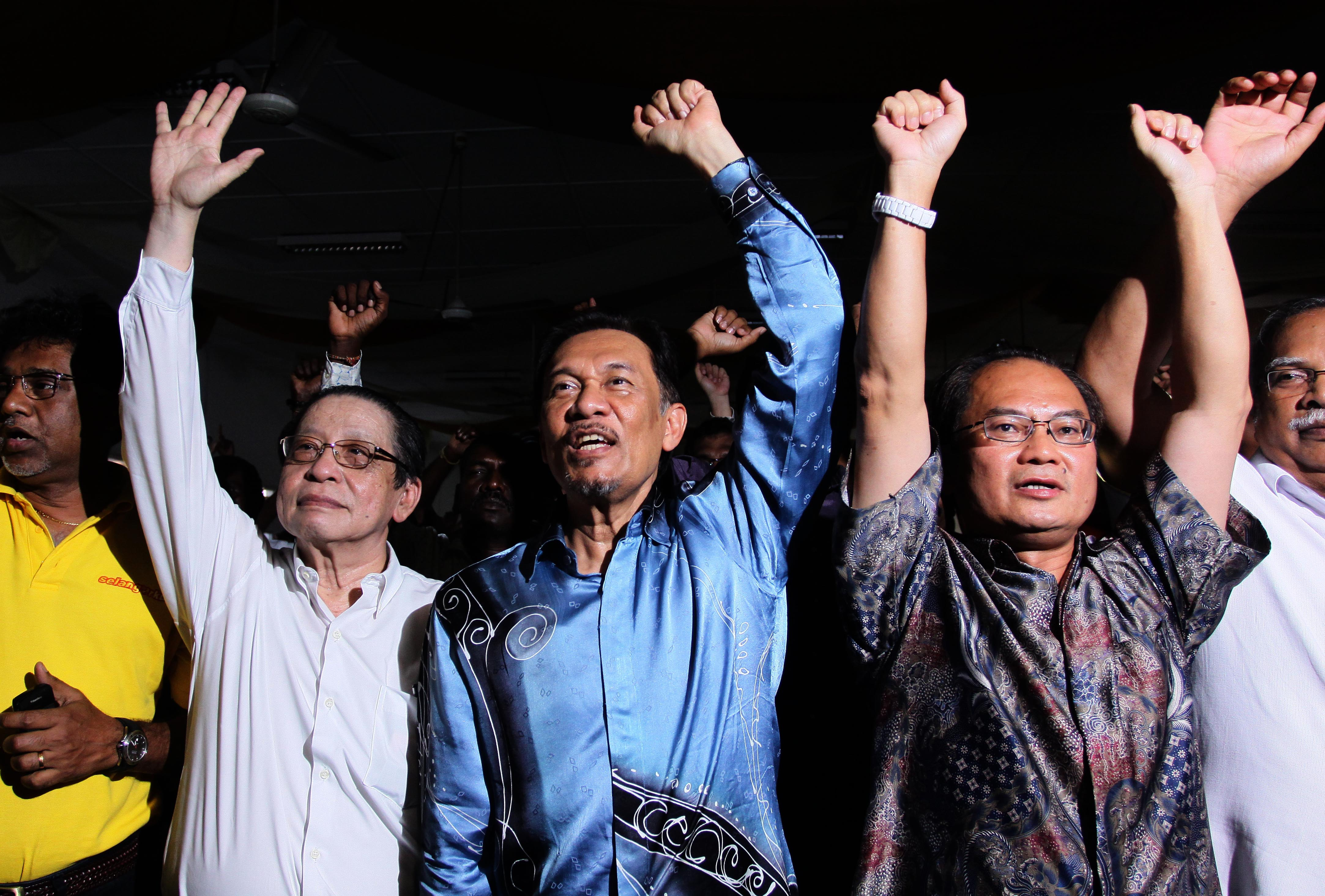 kUALA LUMPUR, 27/05/2012. -INDRAF 2.0: CENTER:BIG NAMES: Opposition leader Datuk Seri Anwar Ibrahim, left DAP national adviser Lim Kit Siang attended the even together with otther Pakatan Rakyat leaders (reporter prakash) Pic Firdaus Latif